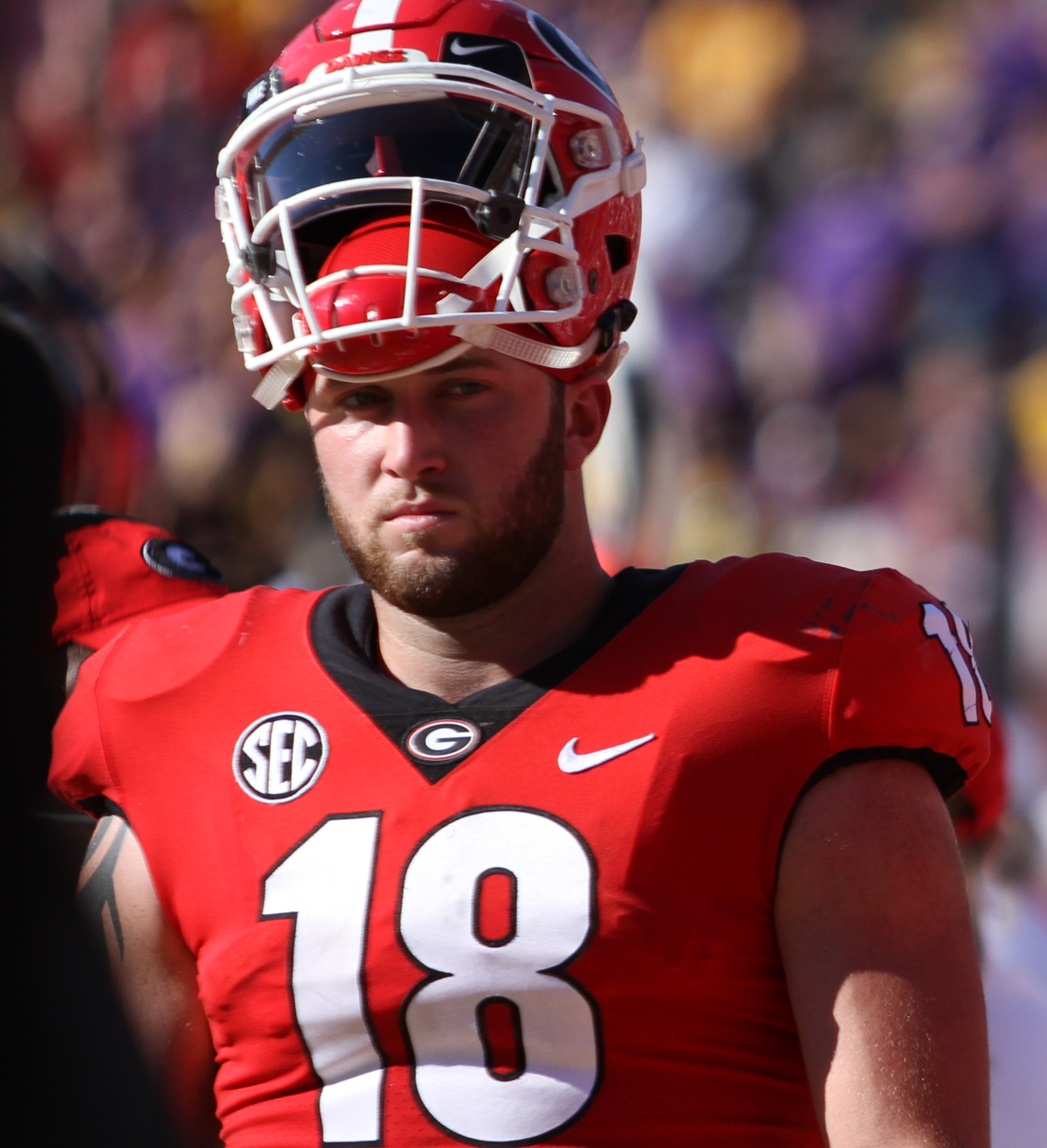 Georgia Bulldogs tight end Isaac Nauta (18), Georgia Bulldogs vs LSU Tigers, Football, Tiger Stadium, October 13, 2018, Baton Rouge, Louisiana, Tammy Anthony Baker, Photographer